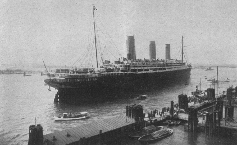 The German ocean liner Imperator (later RMS Berengaria) in 1913.